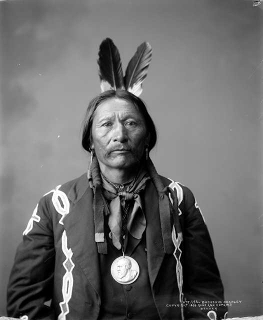 Colorado State Archives